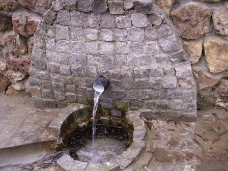 Fishing on the Don. Natural Park "Don", Volgograd Region.